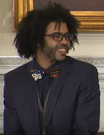 Actor Daveed Diggs at a Hamilton workshop at the White House.